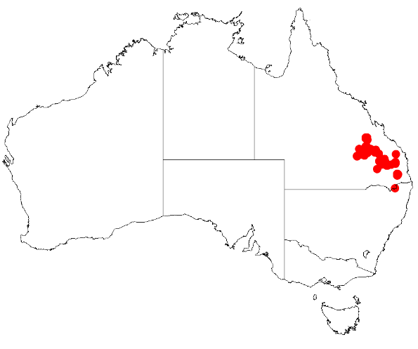 Acacia leichhardtii Occurrence data from Australasia Virtual Herbarium downloaded from on 8 December 2018